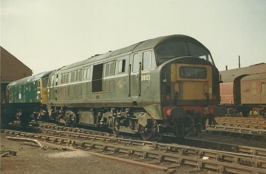 North British (later Class 29) 1,350 hp B-B No.D6321 in BR green livery with white stripe and large yellow warning panel and headcode at Inverness MPD, 08/68. Scanned photograph taken with a Kowa SET.